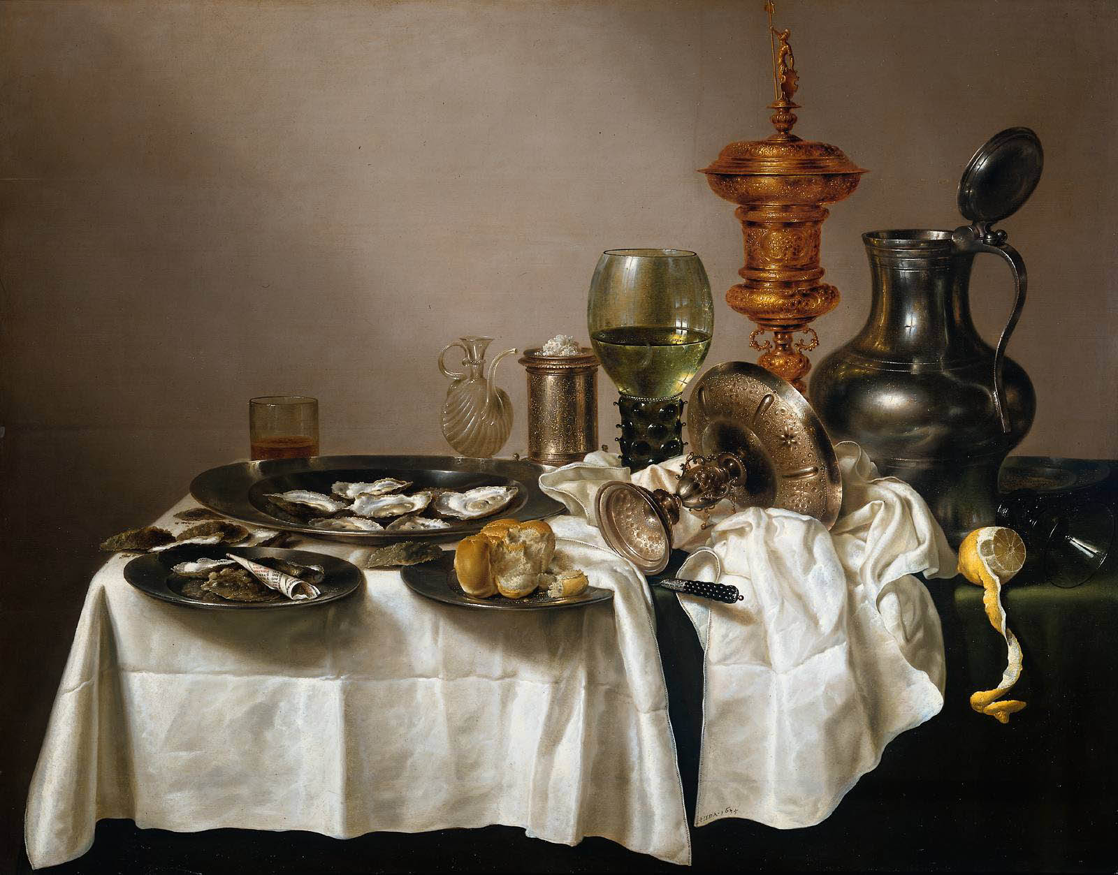 On a table laid with a green table cloth and two linen damask serviettes are displayed: pewter plates with bread and a pewter dish with oysters, a glass of red wine, a glass olive oil or vinegar jug, a silver salt cellar, a rummer of white wine, a gilt silver cup, a pewter jug and a Berkemeyer laying on its side.